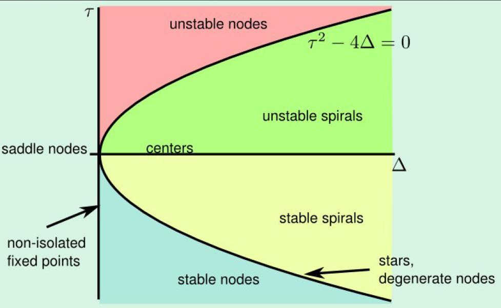 Classification of fixed points based on the Trace and the Determinant of the Jacobian Matrix of the dynamical system.